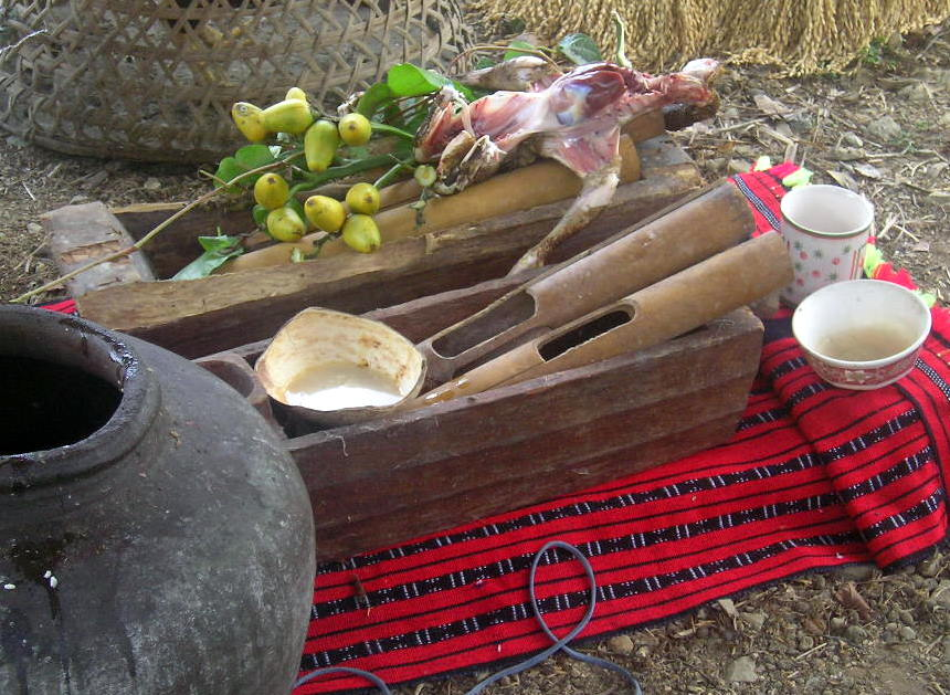 A butchered chicken, a jar of tapuy, a frond of bua, and other implements of a mumbaki in an ancient Ifugao ritual before reaping the Nagacadan rice terraces' golden harvest of bungkitan rice. Olympus Camedia (SITMO Dipdipo Ritual, June 2005). Slightly improved with Picasa.